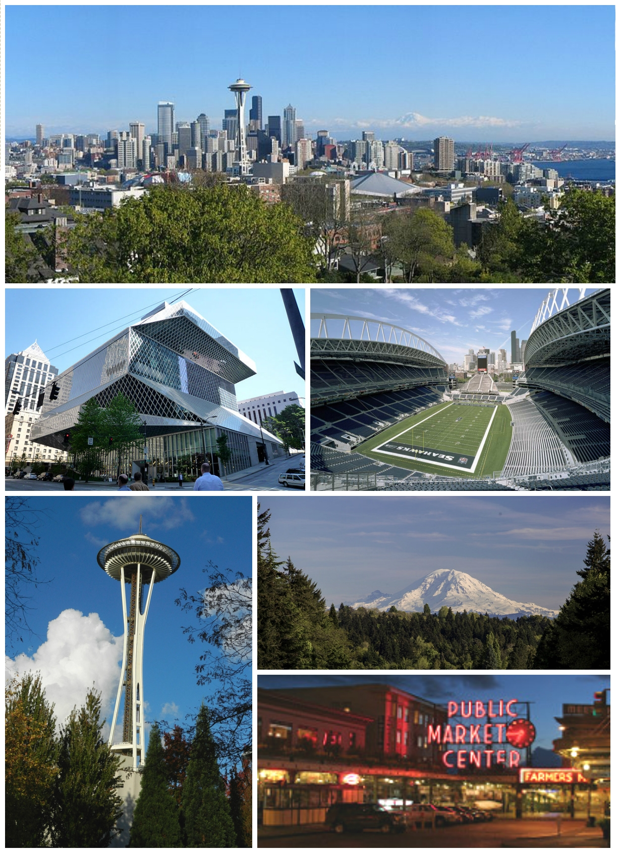 From the top-right corner: Seattle skyline view from Kerry Park Seattle Central Library CenturyLink Field Space Needle Mount Rainier Pike Place Market